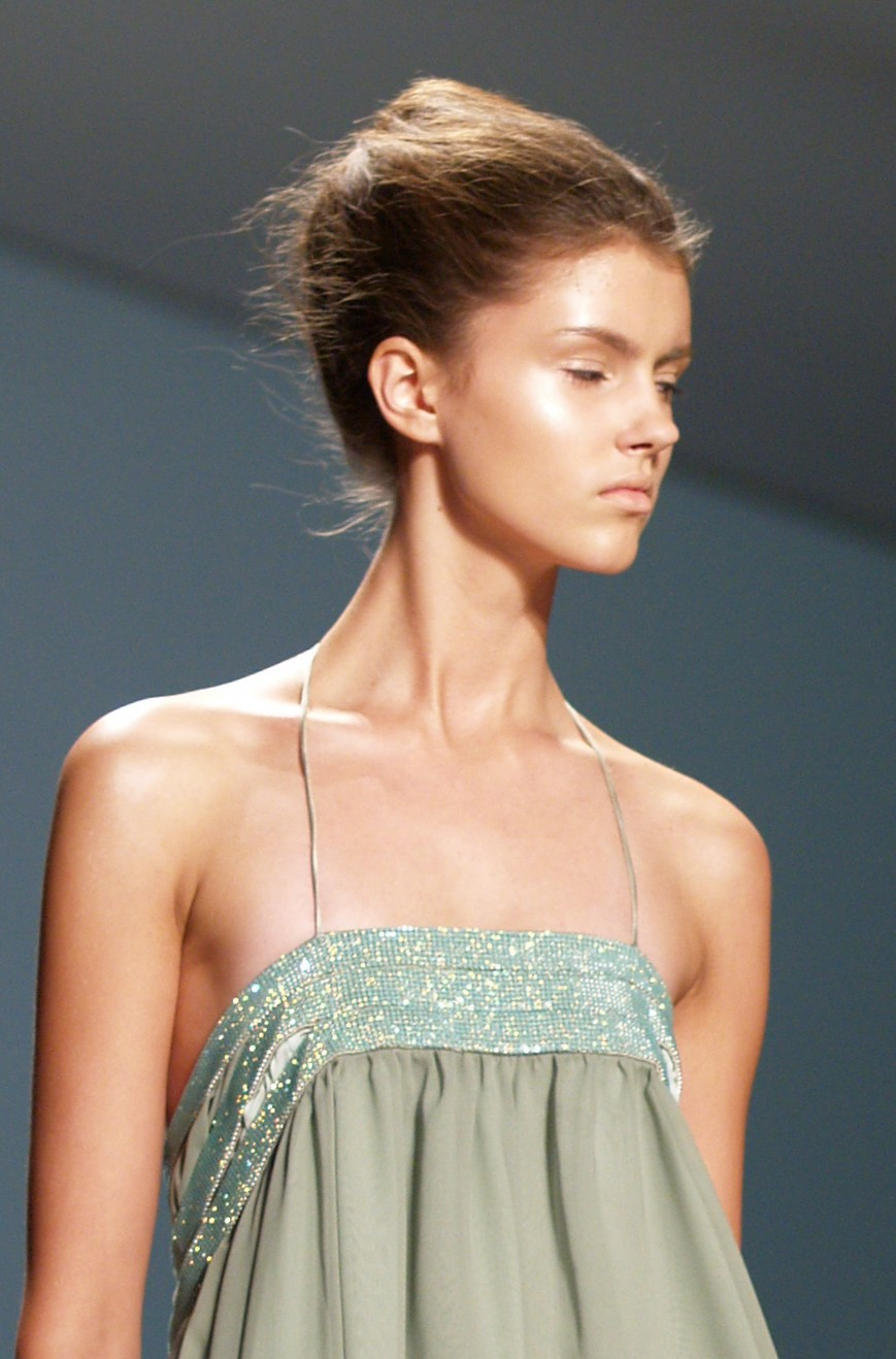 Anett Griffel modeling in Doo.Ri Spring 2007 show, New York Fashion Week